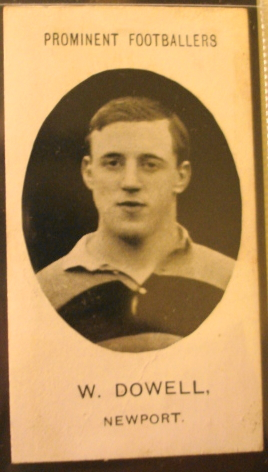 William Dowell, Wales international rugby union player, Newport Club